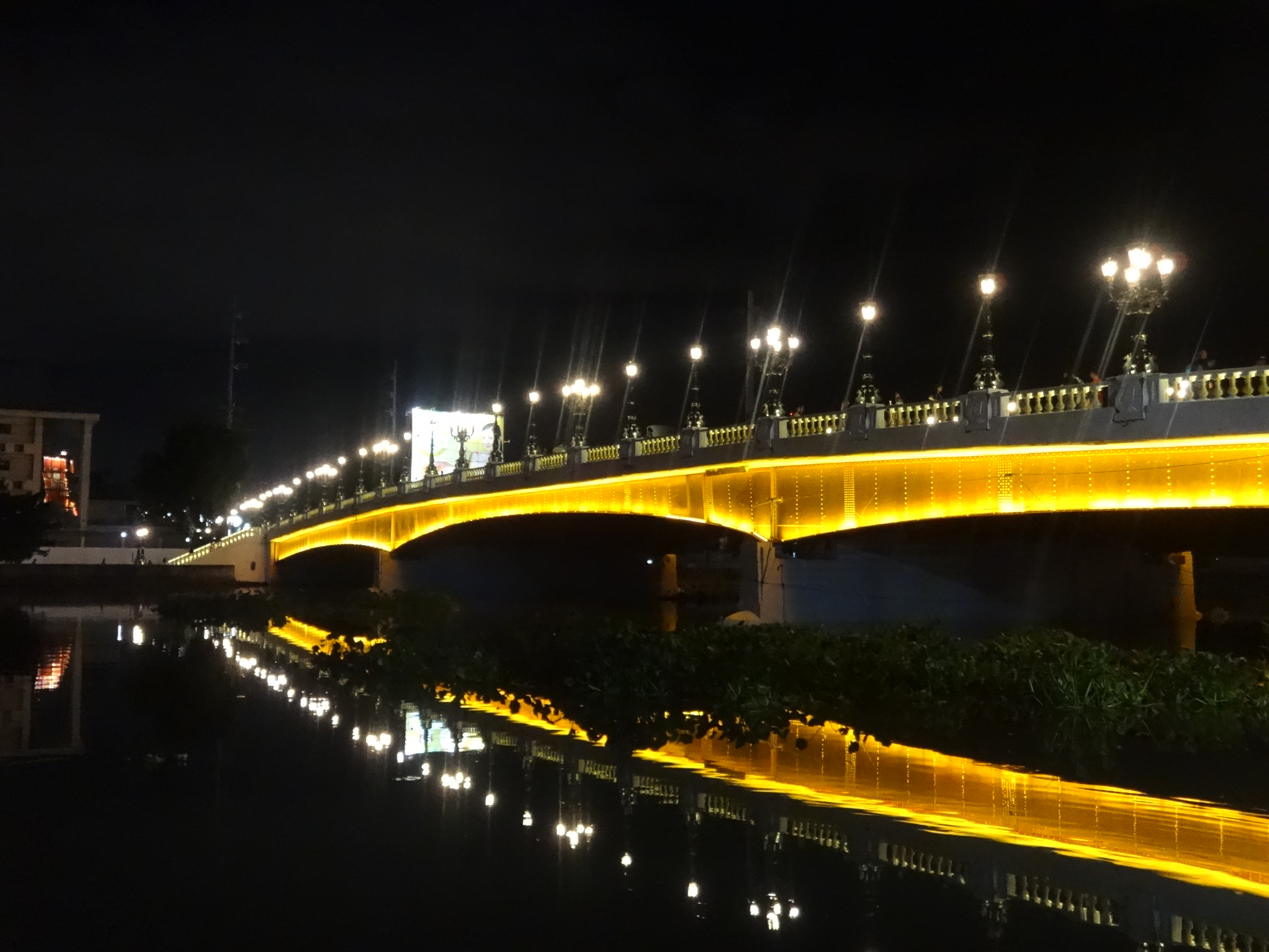 Jones Bridge in Manila at night